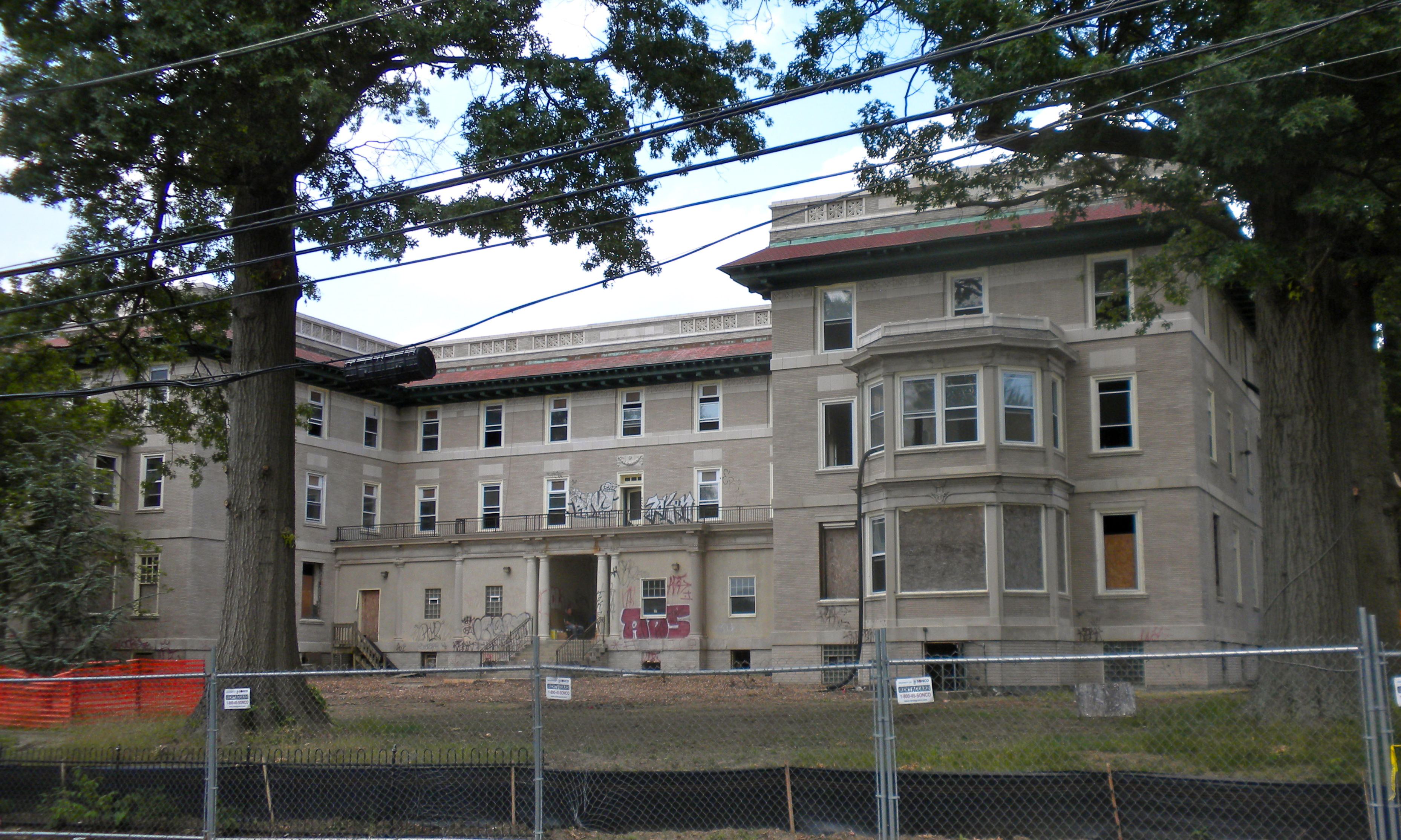 Presser Home for Retired Music Teachers on NRHP since November 8, 2006. At 101–121 W. Johnson St. in Mount Airy neighborhood of Northwest Philadelphia. Undergoing renovation.